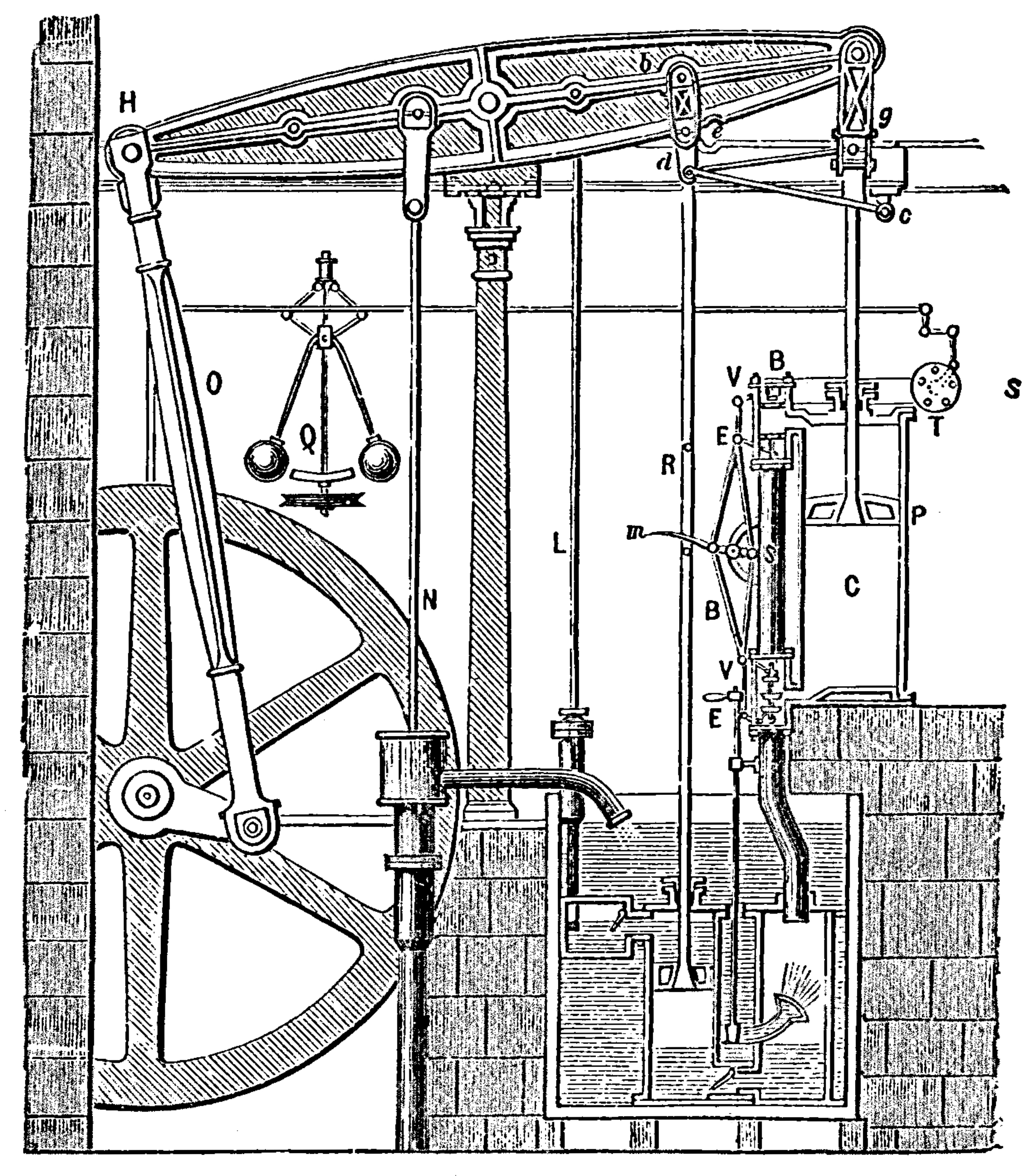 Sketch showing a steam engine designed by Boulton & Watt, England, 1784. Labelling: B steam valves (input), C steam-cylinder, E exhaust steam valves, H Connecting rod link to beam N cold water pump, O connecting rod, P piston, Q regulator/governor, R rod of the air-pump, T steam input flap (controlled by governor (Q). g link connecting piston (P) and beam via parallel motion g-d-c, m steam inflow lever worked by the air-pump rod (R).